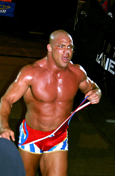 Kurt Angle during a WWE house show held in Kitchener, Ontario, Canada on January 22, 2005.